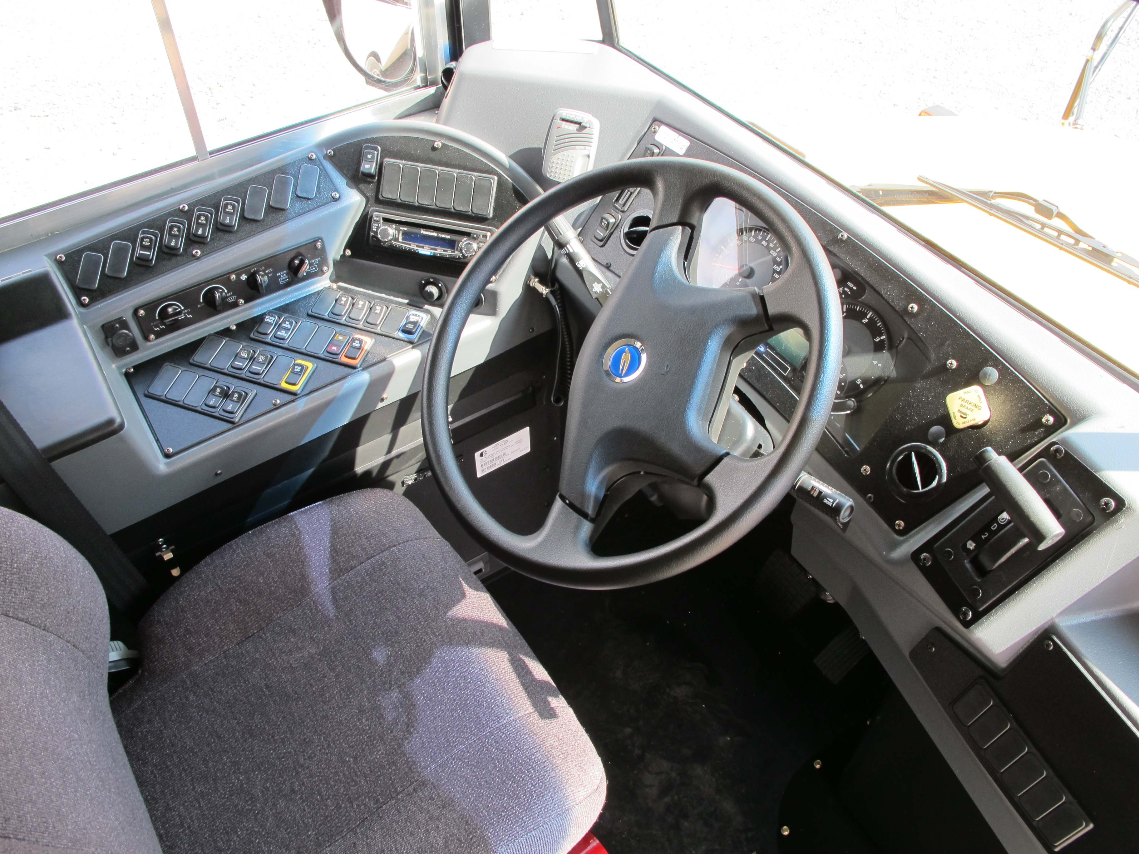 Photograph of a drivers' compartment of a 2011 Blue Bird Vision located in Charlottesville, Virginia.